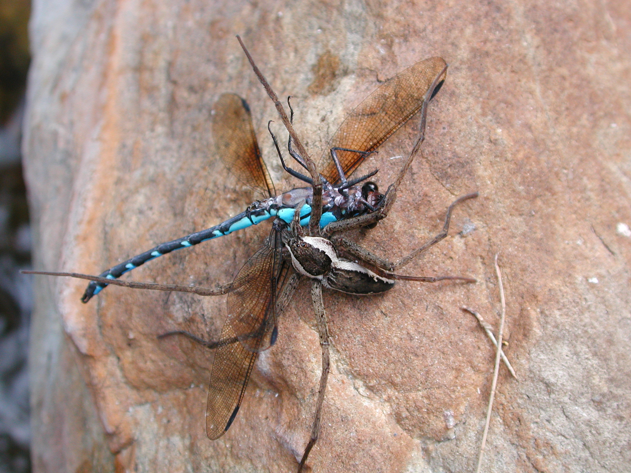 Megadolomedes australianus (det. Dr Robert Raven) with an Anisoptera as prey, Carnarvon National Park, Queensland, Australia.